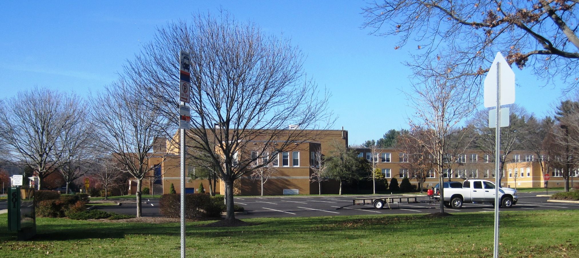 Photo showing the front of Notre Dame High School in Lawrence Township, Mercer County, New Jersey. The school is located on U.S. Route 206 (Lawrence Road)